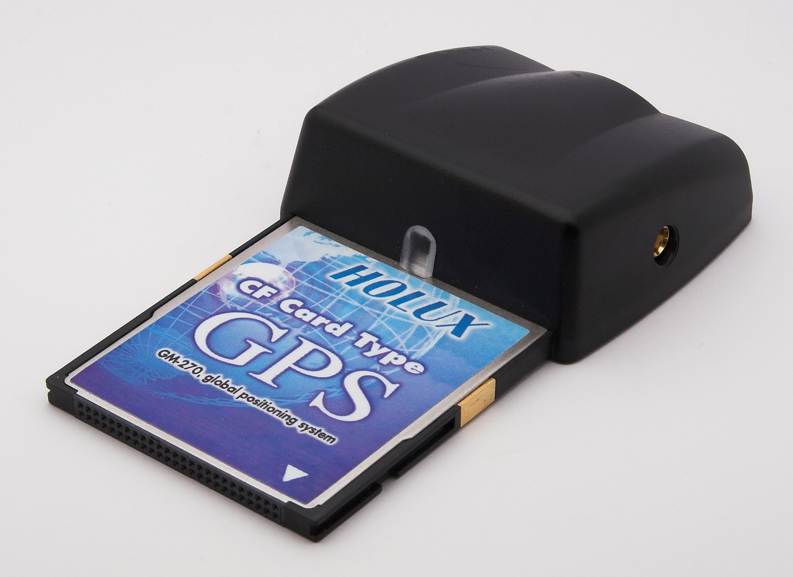 CompactFlash GPS Receiver